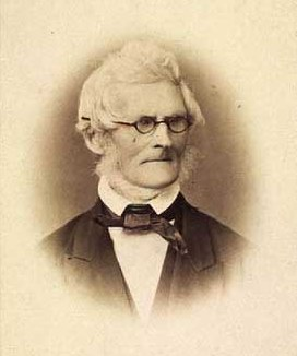 Erling Eckersberg (1808-1889), Danish engraver